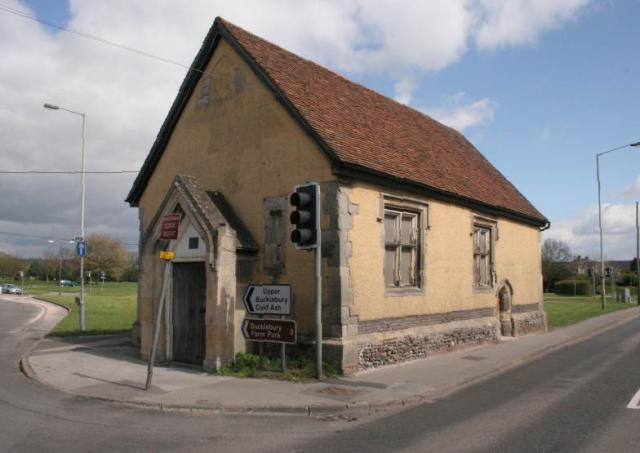 Thatcham. This building was erected in 1304 as the Chapel of St Thomas and was used for worship until about 1550. After a long period of neglect, it was occupied as the Winchcombe Charity School 1707-30 and as a Blue Coat School 1794-1914. Since then it has served as a cooking depot, a classroom and as an antiques shop. It is still known as the Blue Coat School and is owned by Newbury District Council.